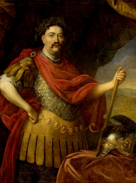 Portrait of John III Sobieski in Roman costume.label QS:Len,"Portrait of John III Sobieski in Roman costume."label QS:Lfr,"Portrait de Jean III Sobieski en costume romain."label QS:Lpl,"Portret Jana III Sobieskiego w stroju rzymskim."